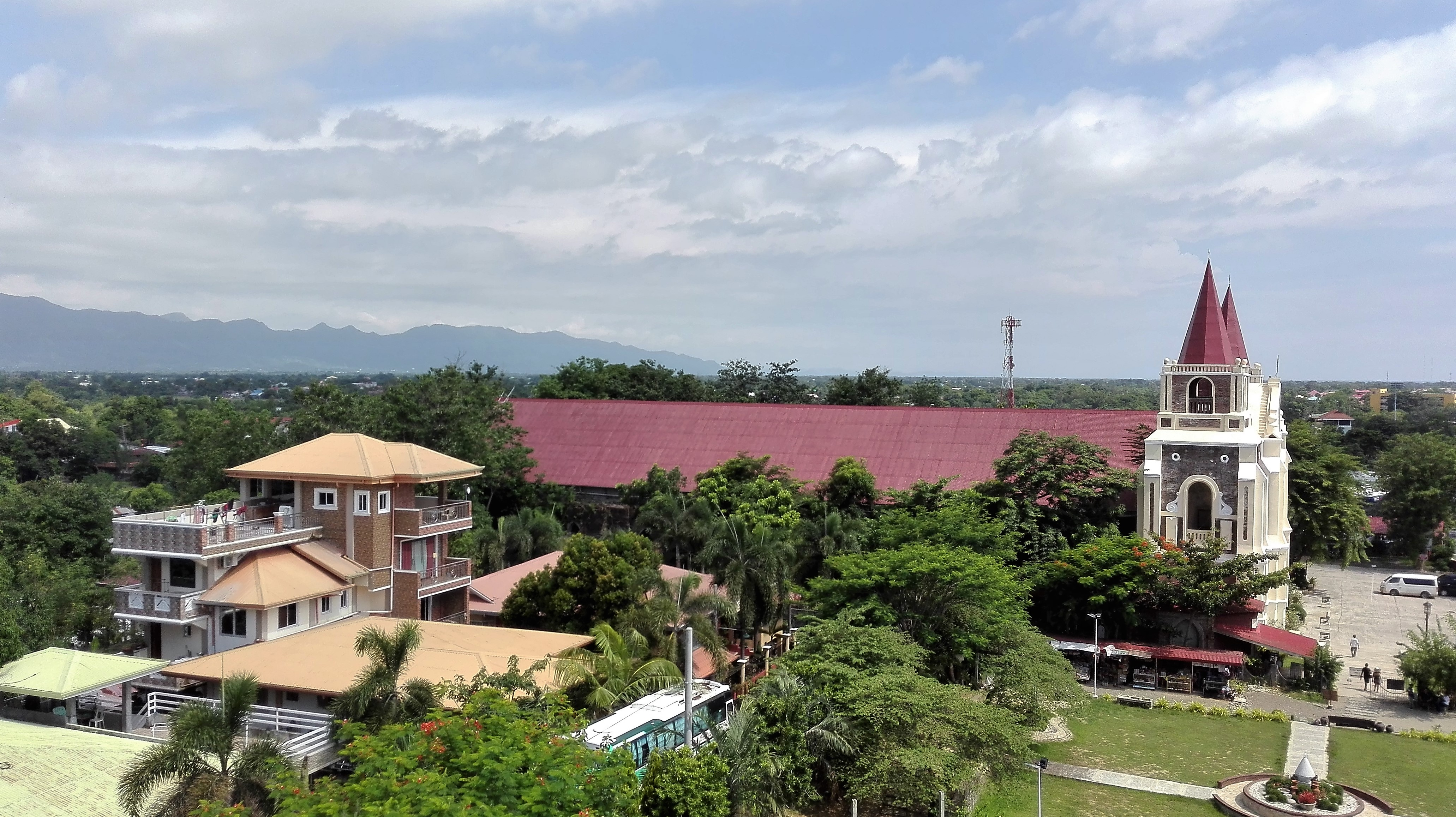 Saint Augustine Church in Bantay, Ilocos Sur